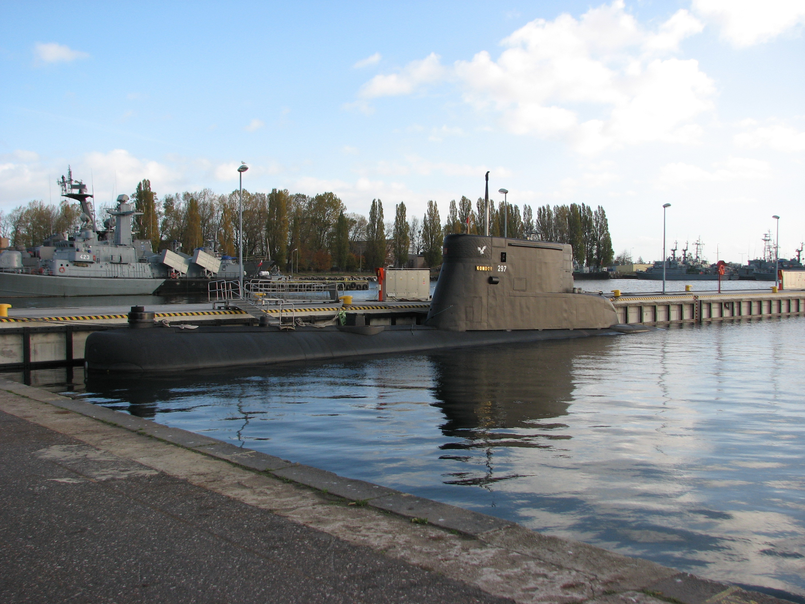 Polish submarine ORP Kondor 207 (Kobben) class, in Gdynia. In the background ORP Grom missile craft project 660 class, before completement with RBS-15 missiles. Visible are also parts of Project 1241RE (Tarantul-I) class missile craft (left) and Project 207 class minesweepers (right)